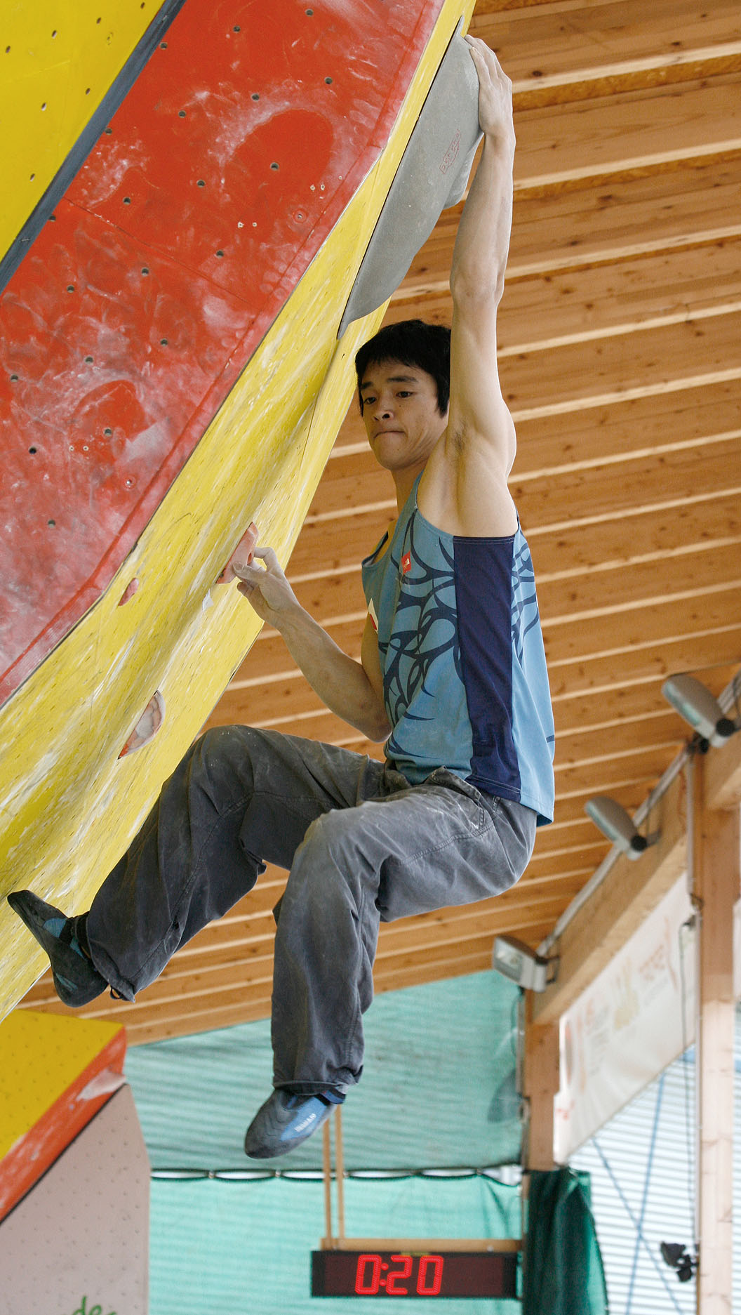 Tsukuru Hori during the semi-finals at the IFSC Boulder Worldcup Vienna 2010.